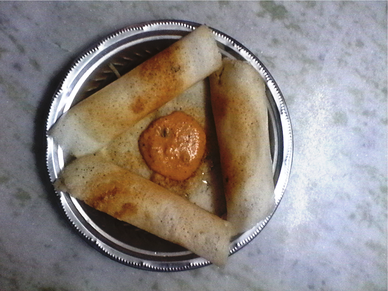 Dosai